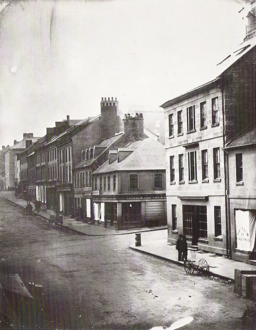 Granville Street at Duke Street, Halifax, Nova Scotia.